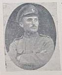 Velyo Merdzhanov